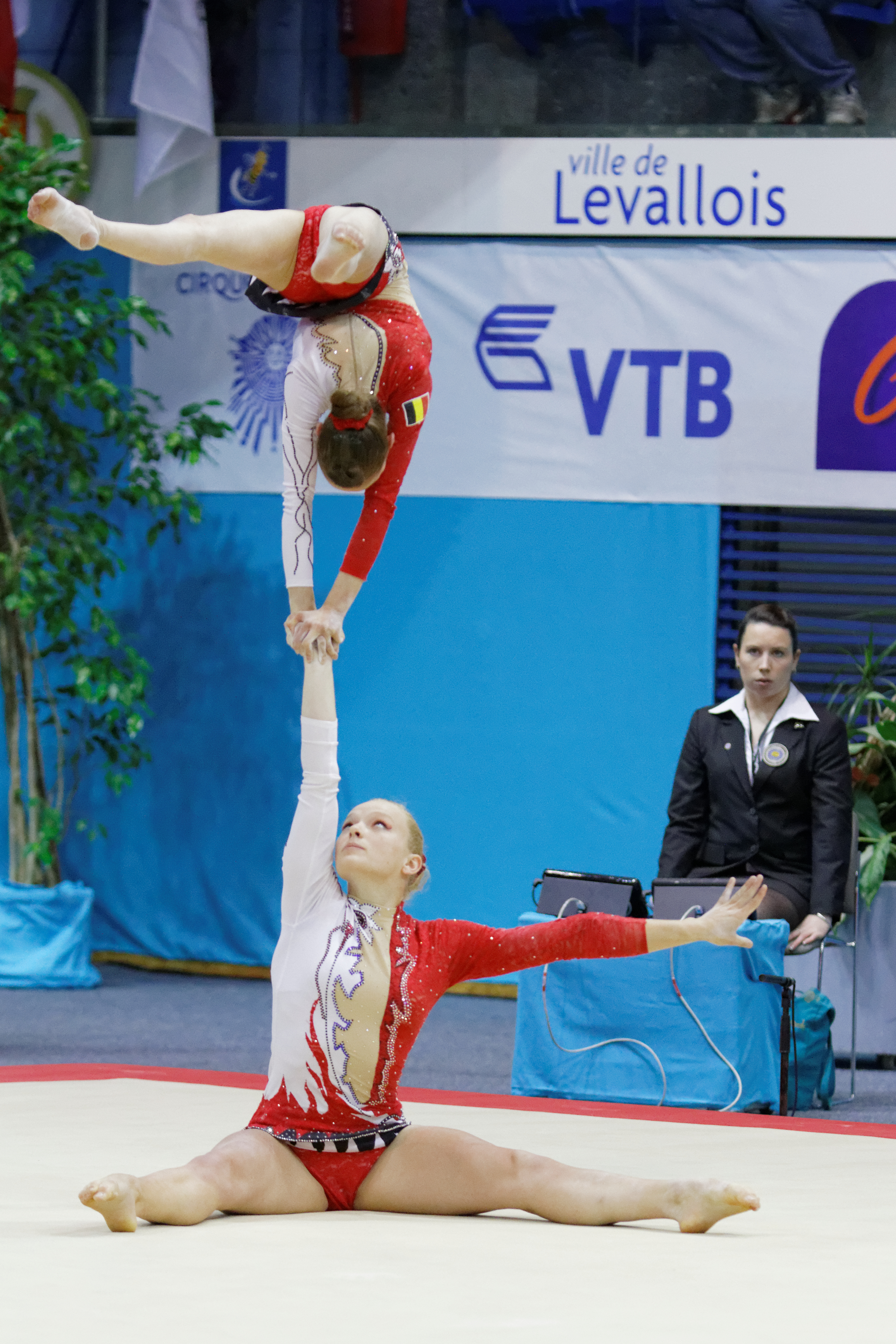 2014 Acrobatic Gymnastics World Championships, 10th-12 July, Levallois-Perret, France. Qualifications : women pair (combined). Belgium.